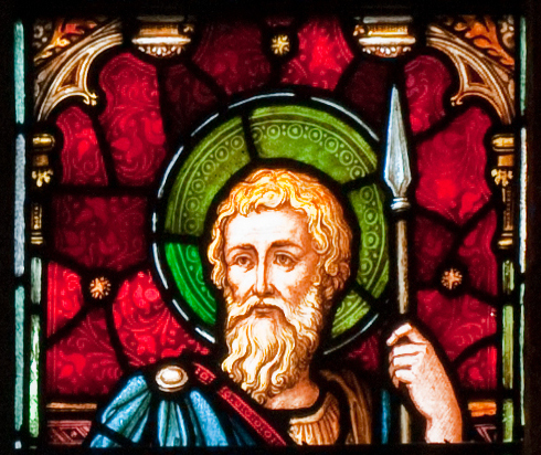 Detail of right part of the second stained glass window in the west aisle (left from the nave if coming from the main entrance in the south), depicting Apostle Thomas. Augustus Pugin (1812–1852) Alternative names Augustus Welby Northmore Pugin; A. W. N. PuginDescriptionBritish architectDate of birth/death 1 March 1812 14 September 1852 Location of birth/death Bloomsbury RamsgateWork location United Kingdom Authority control : Q313288 VIAF: 17247761 ISNI: 0000 0000 8096 1987 ULAN: 500008414 LCCN: n50027100 NLA: 35435757 WorldCat creator QS:P170,Q313288